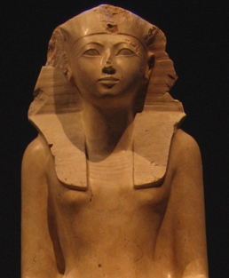 Detail of Hatshepsut, Eighteenth dynasty of Egypt, c. 1473-1458 B.C. Indurated limestone sculpture at the Metropolitan Museum of Art, New York City. Hatshepsut is depicted in the clothing of a male king though with a feminine form. Inscriptions on the statue call her "Daughter of Re" and "Lady of the Two Lands." Most of the statue's fragments were excavated in 1929, by the Museum's Egyptian Expedition, near Hatshepsut's funerary temple at Deir el-Bahri in Thebes. The lower part of the statue was acquired by Karl Richard Lepsius and taken to Berlin in 1845. The head, left forearm, and parts of the throne were excavated by the Museum, 1926-27 season and acquired in the division of finds. The Berlin fragment was acquired by the Museum in an exchange in 1929.